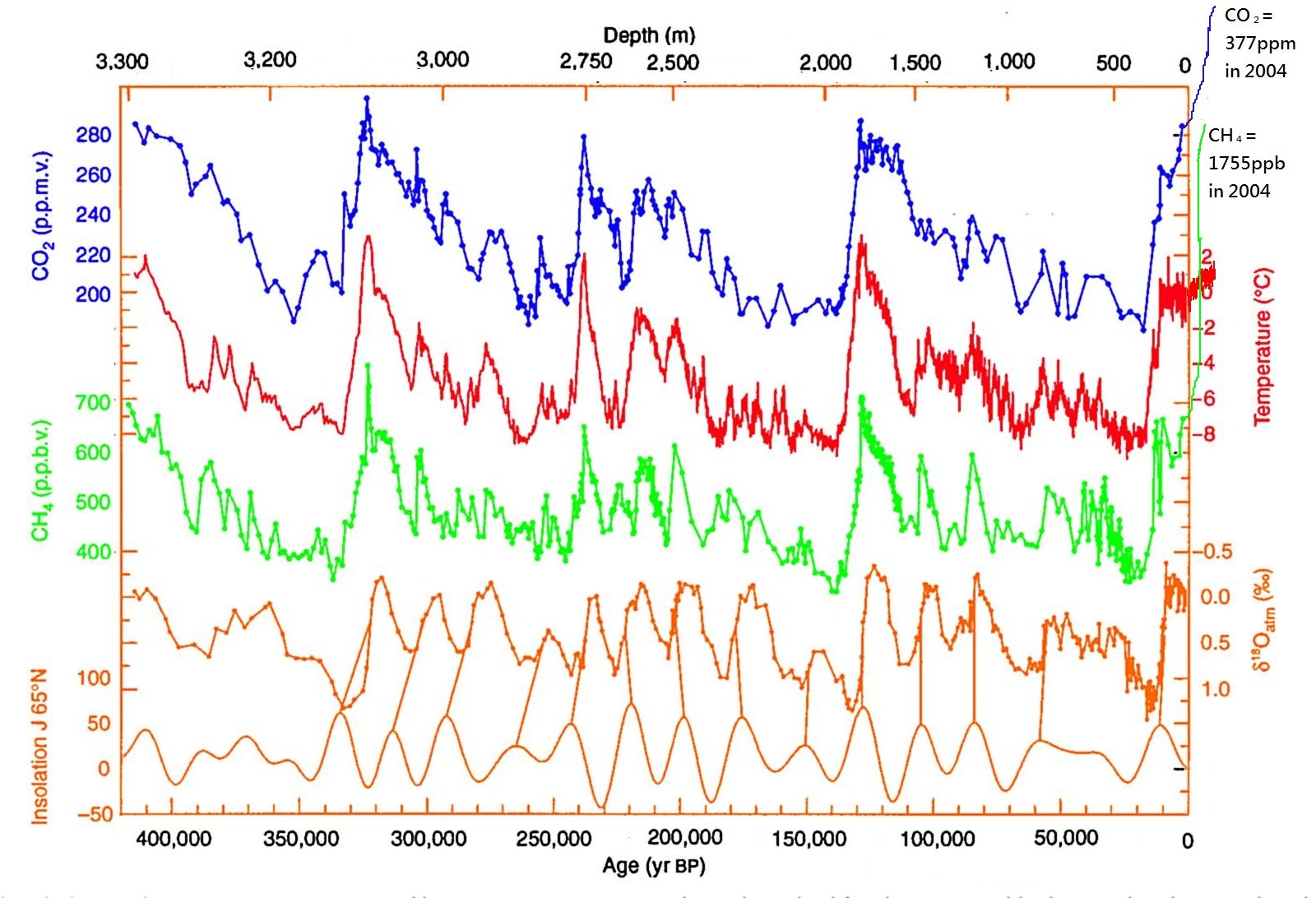 420,000 years of ice core data from Vostok, Antarctica research station. Current period is at left. From bottom to top: * Solar variation at 65°N due to Milankovitch cycles (connected to 18O). * 18O isotope of oxygen. * Levels of methane (CH4). * Relative temperature. * Levels of carbon dioxide (CO2). From top to bottom: * Levels of carbon dioxide (CO2). * Relative temperature. * Levels of methane (CH4). * 18O isotope of oxygen. * Solar variation at 65°N due to Milankovitch cycles (connected to 18O).